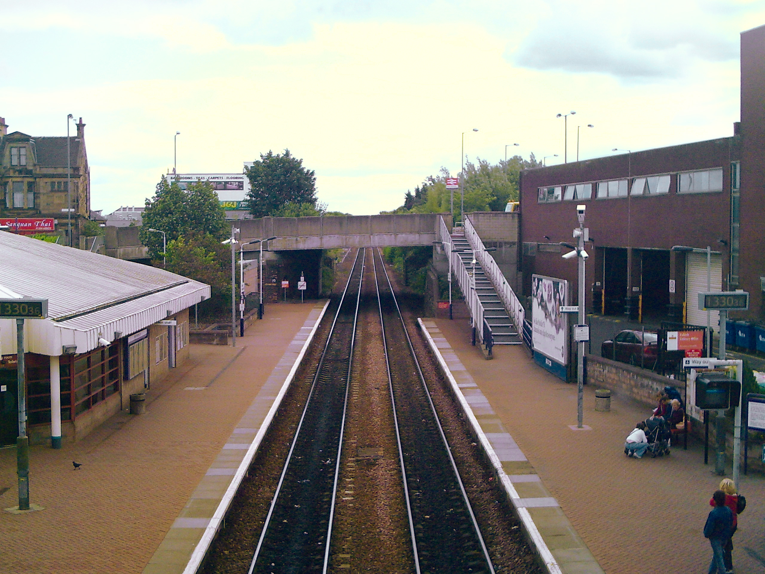 Color corrected version of the original by Sierra 1.